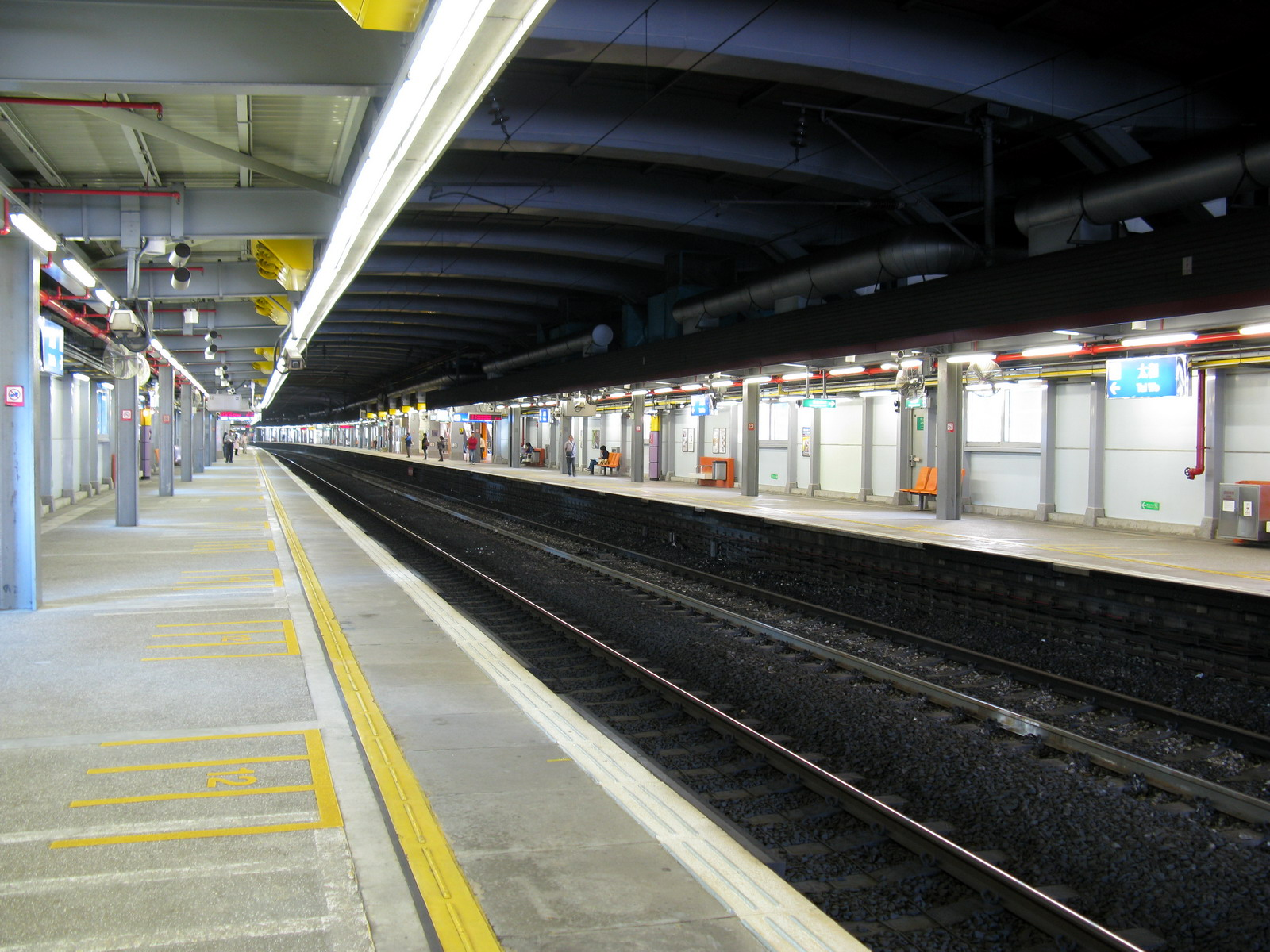 太和站-東鐵綫月台 East Rail Line Platform of Tai Wo Station